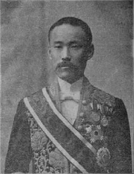 Lee Jae-gak Portrait